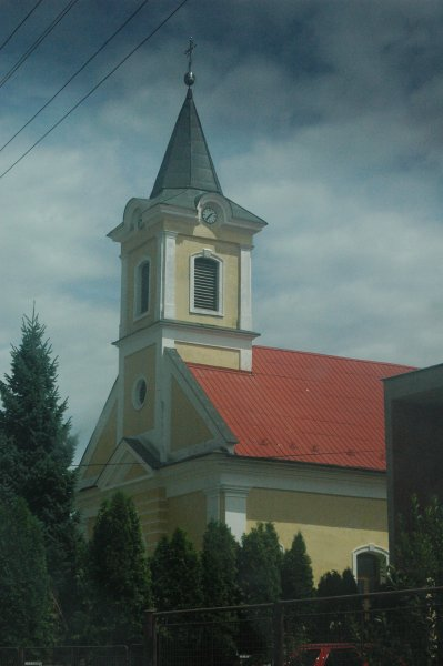 Dolné Vestenice, church